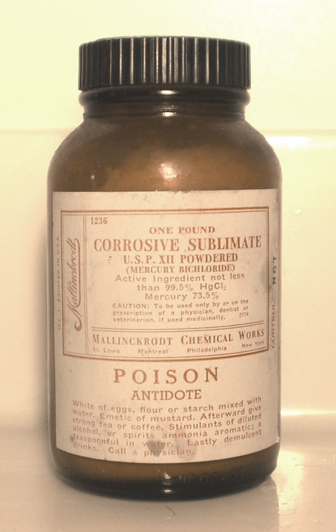 "Photographed by me. No restrictions on use of image. Trademarks might be held on bottle label."